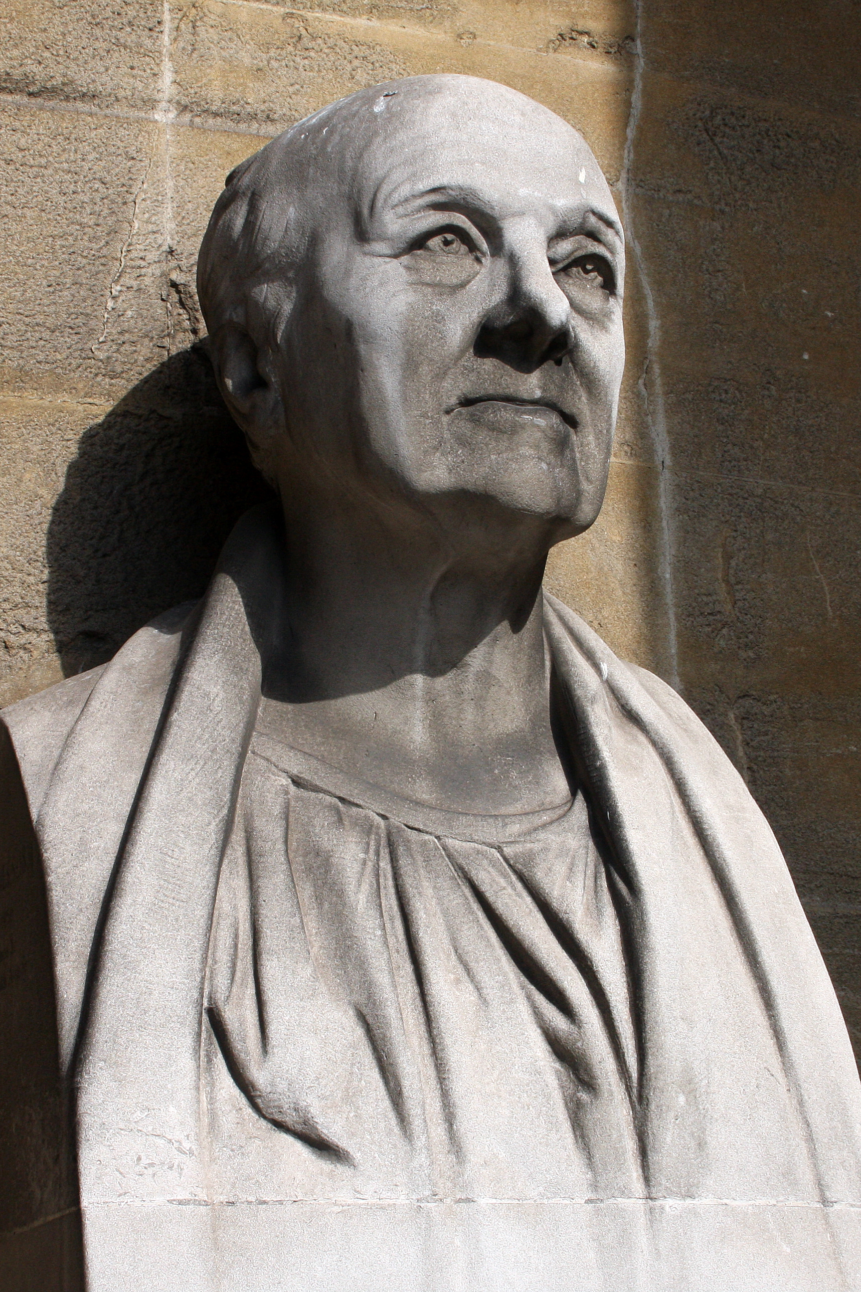 Bust of British architect John Nash (1752-1835) at one of his creations, the All Souls Church in London.